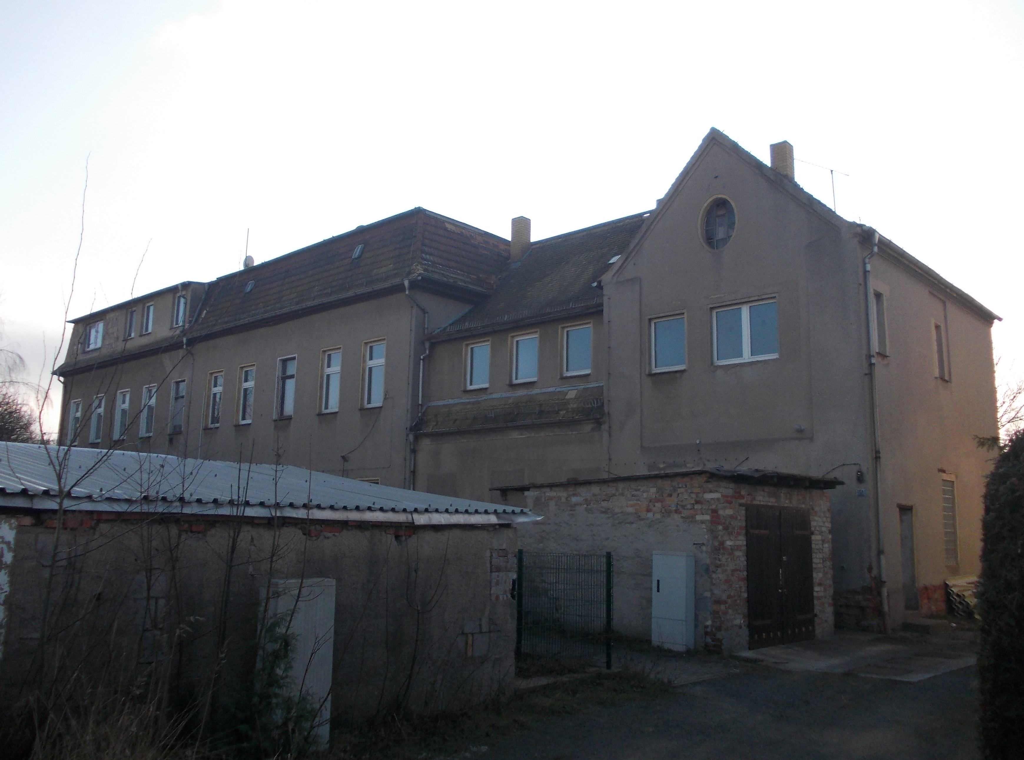 Zschölkau estate (Krostitz, Nordsachsen district, Saxony)